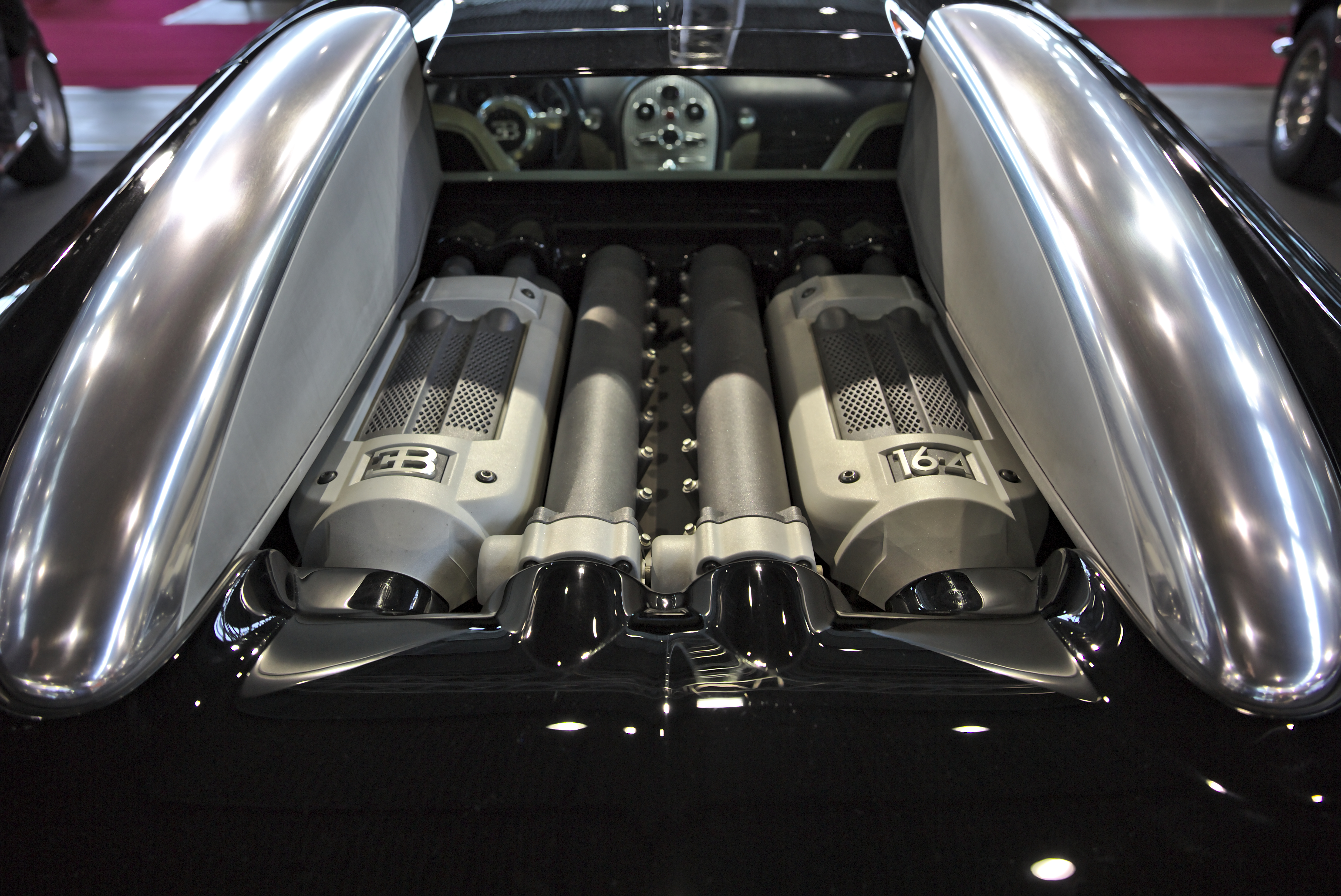 Bugatti Veyron Engine at Retro Classics 2018